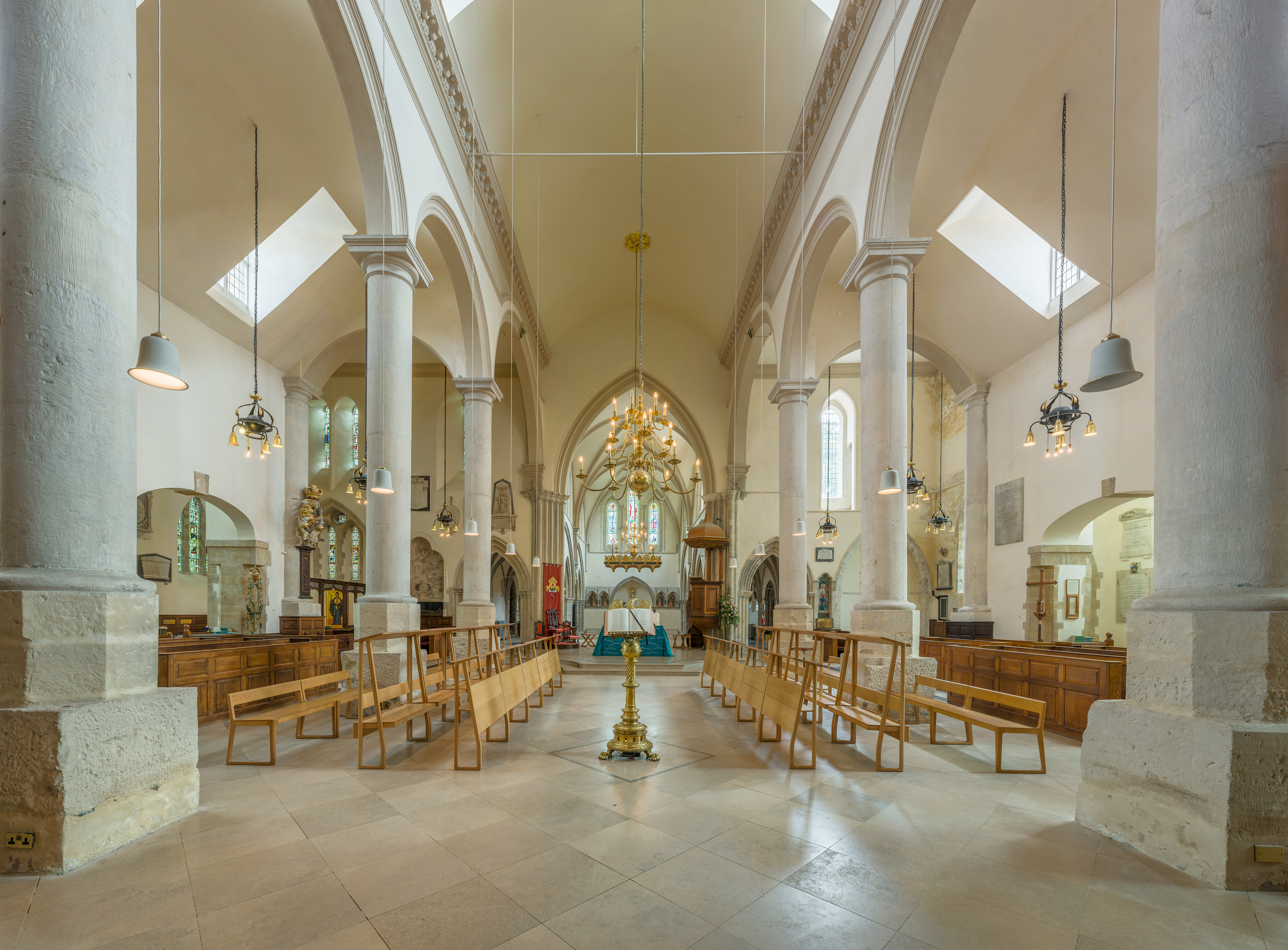 The choir of Portsmouth Cathedral looking towards the north east in Hampshire, England.